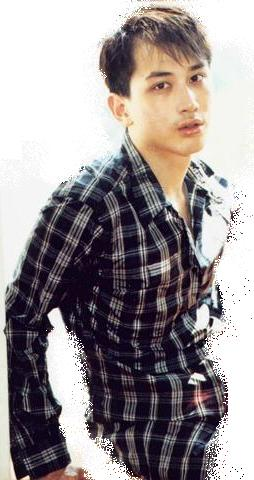 Kai Wong, American model and actor